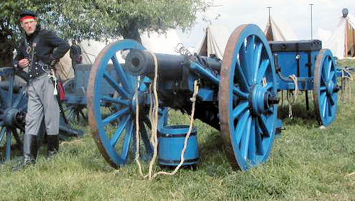 Prussian cannon at a June 2006 reenactment.